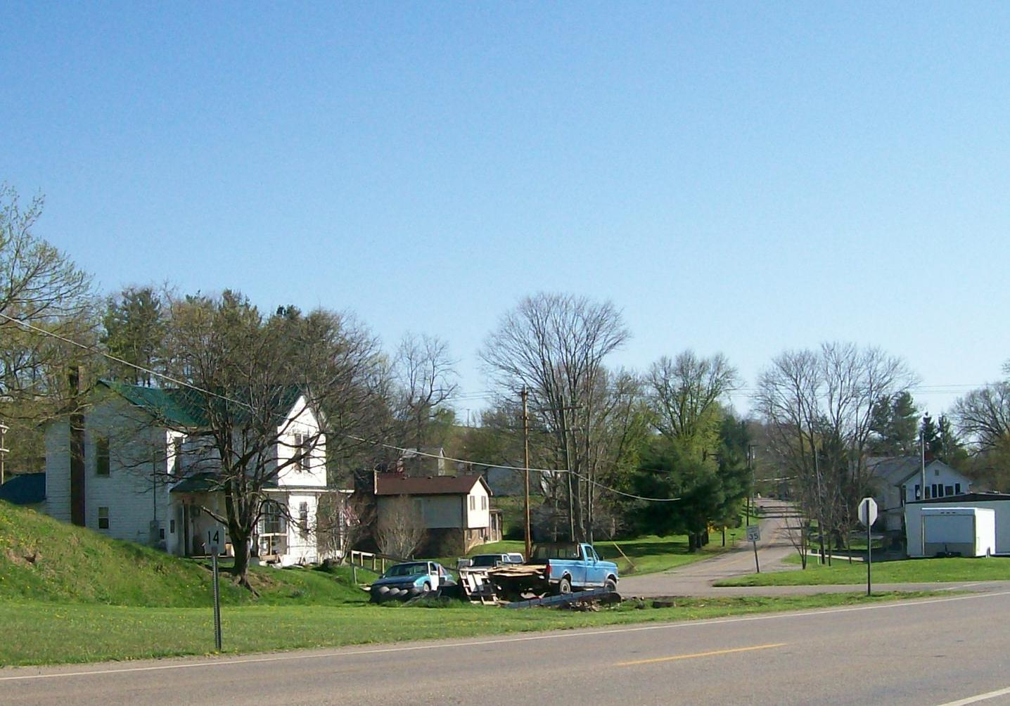 The Watertown Historic District in Washington County, Ohio. The district is photographed looking south from the junction of State Route 339 and County Road 109A. On the NRHP for Washington County, Ohio. Taken 04-10-2010.